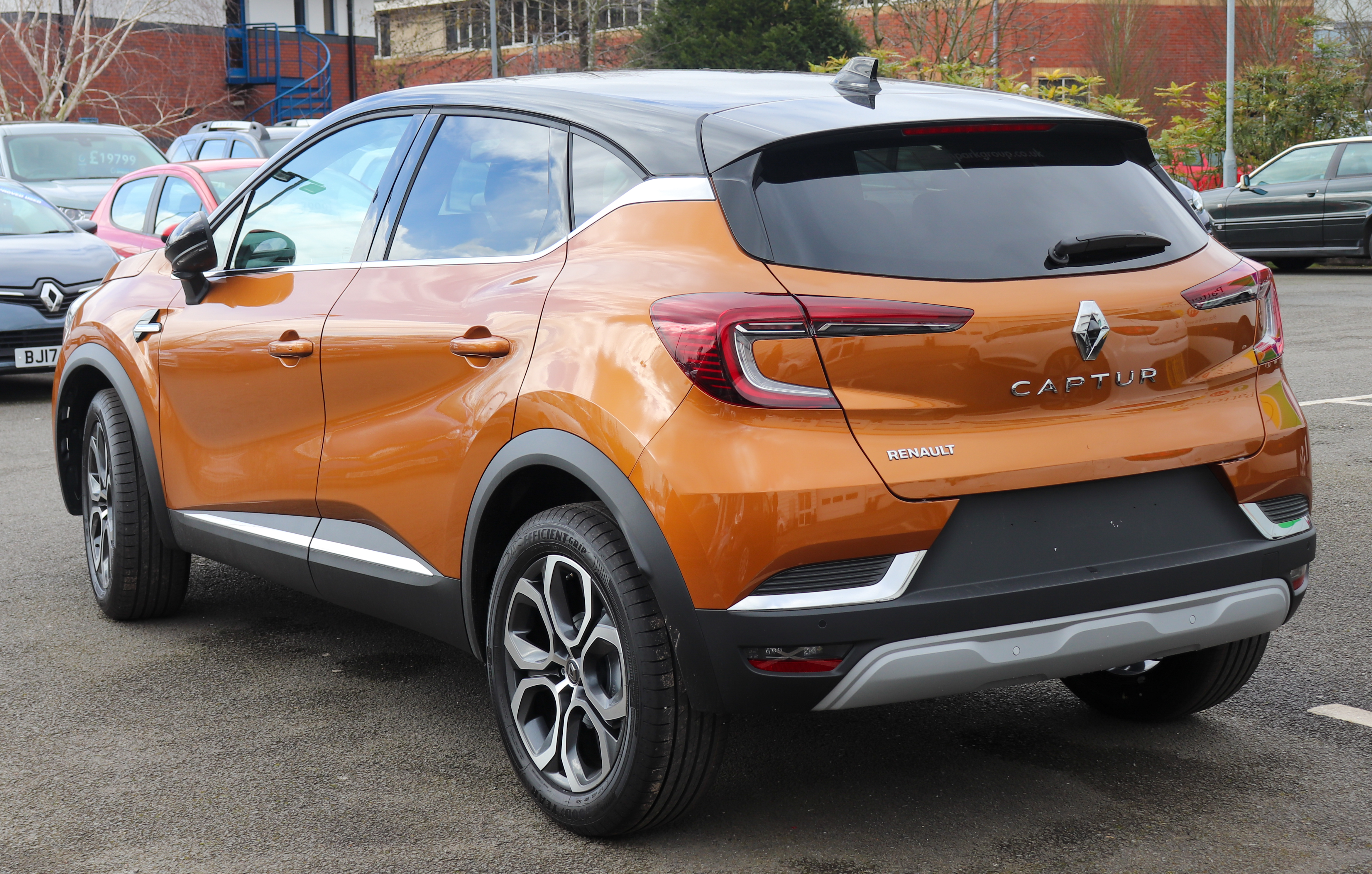 2020 Renault Captur S Edition Rear Taken in Leamington Spa